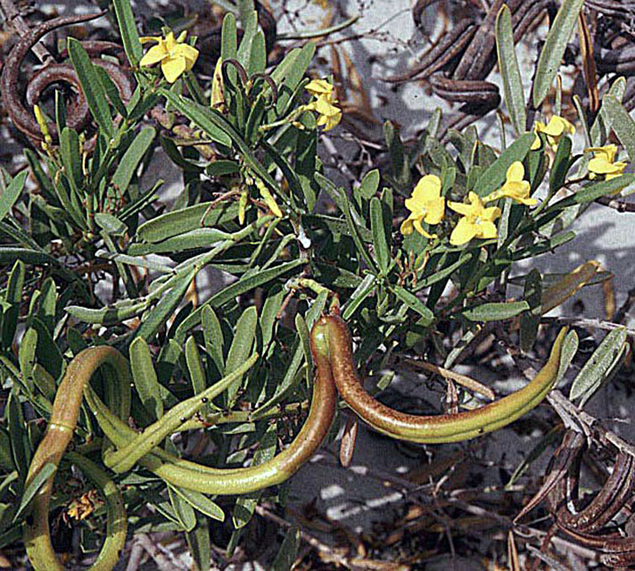 Showing the pods which give this species of the Atacama Desert the name of Cuerno de Cabra. In context at